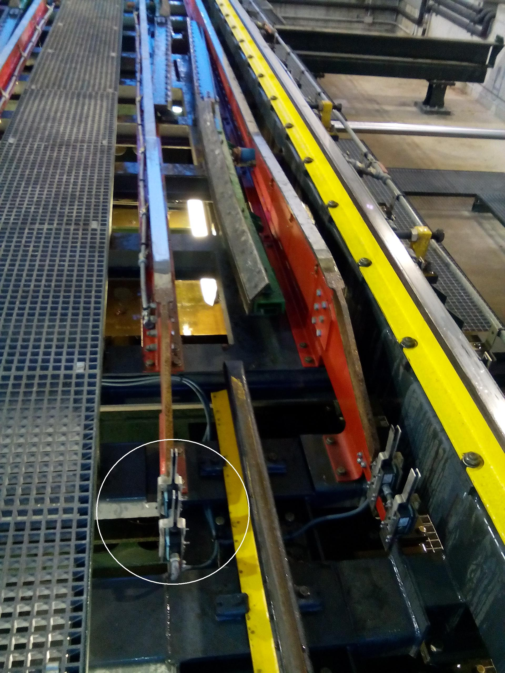 Detail of Talgo gauge changer